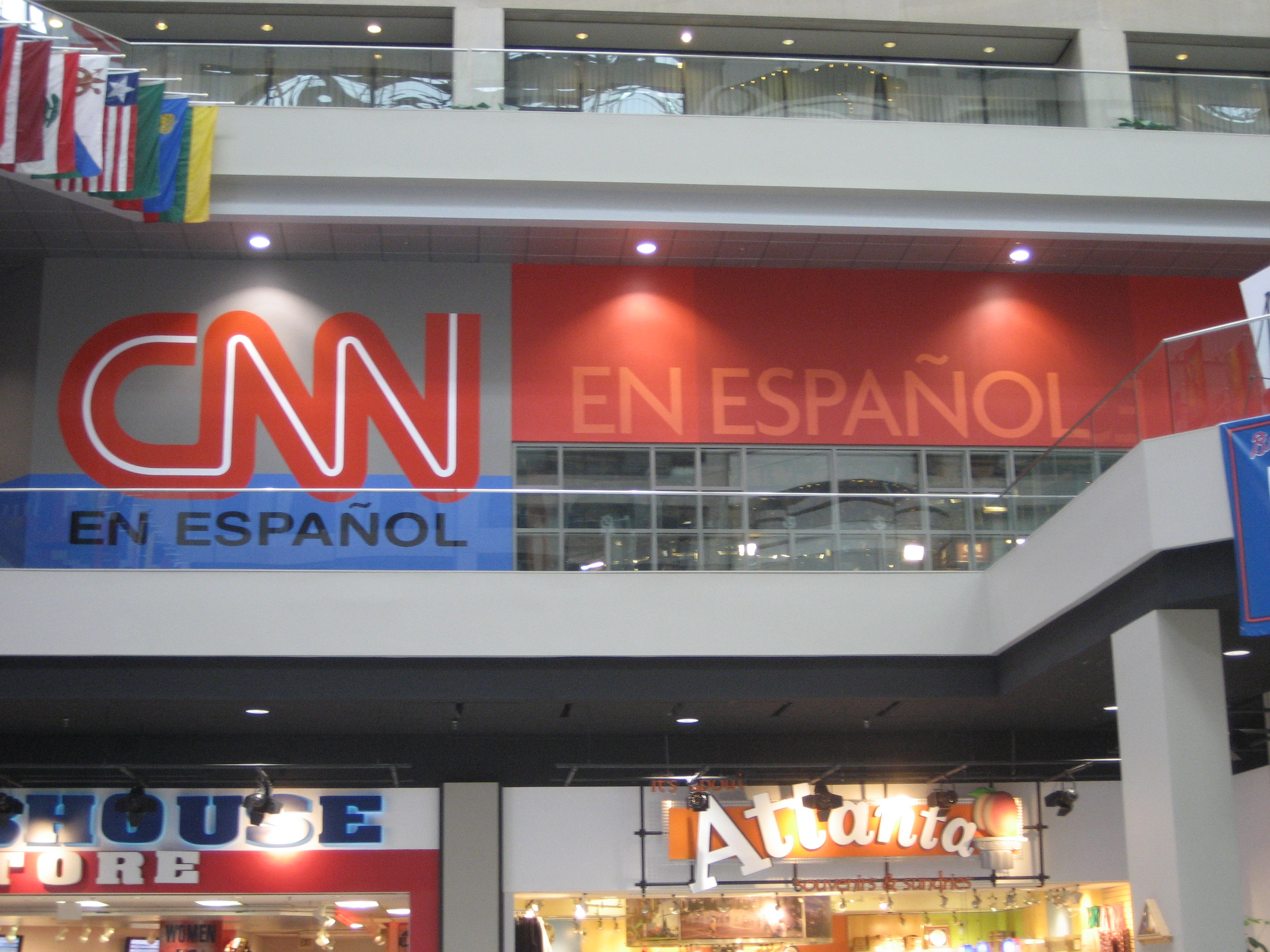 CNN en Espanol Offices